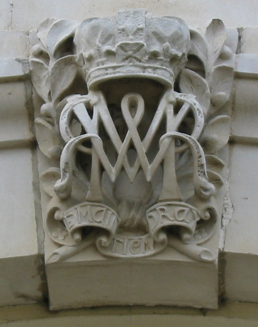 Hampton Court, London